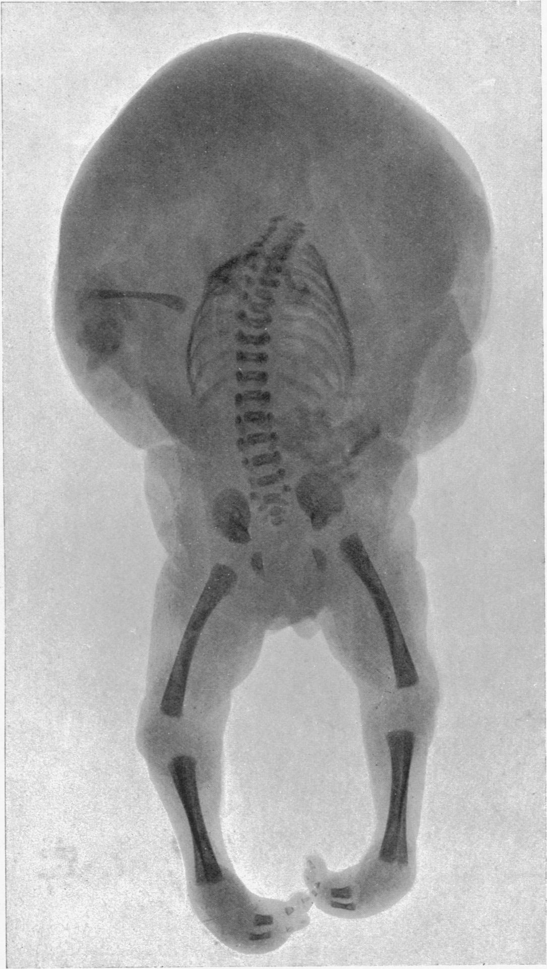 acardiac foetus